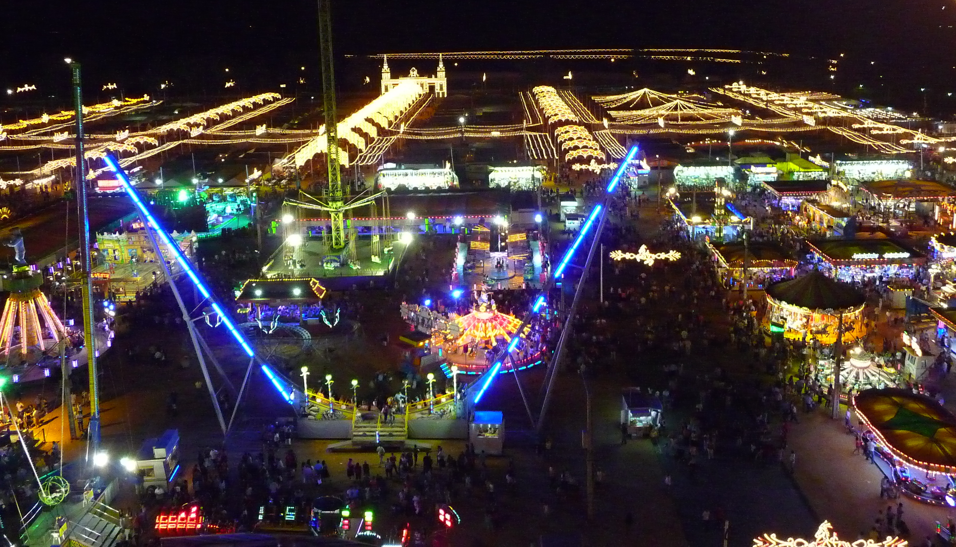 Colombus Party, Huelva (Spain)